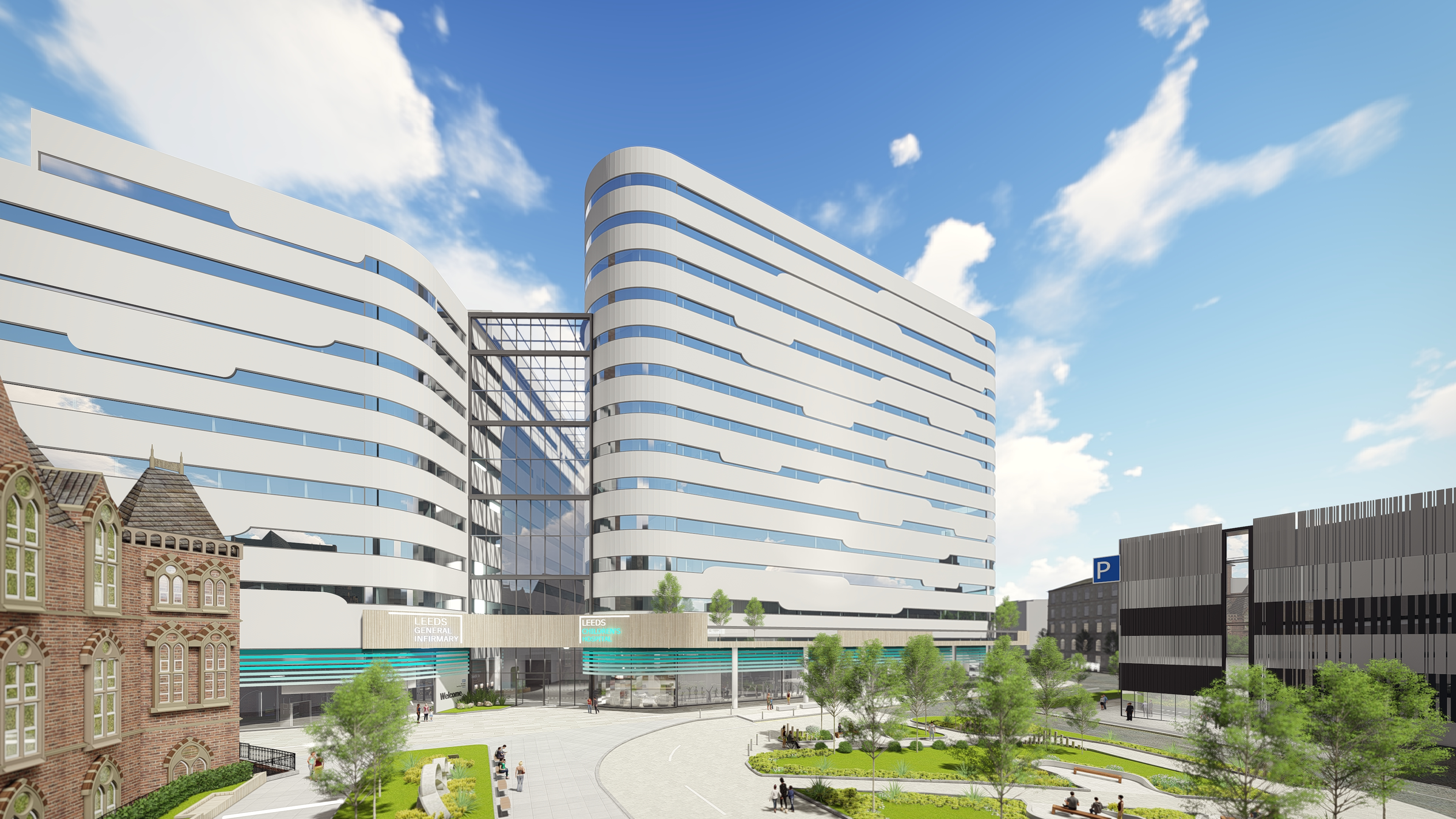 The new Leeds General Infirmary and Leeds Children's Hospital plans.